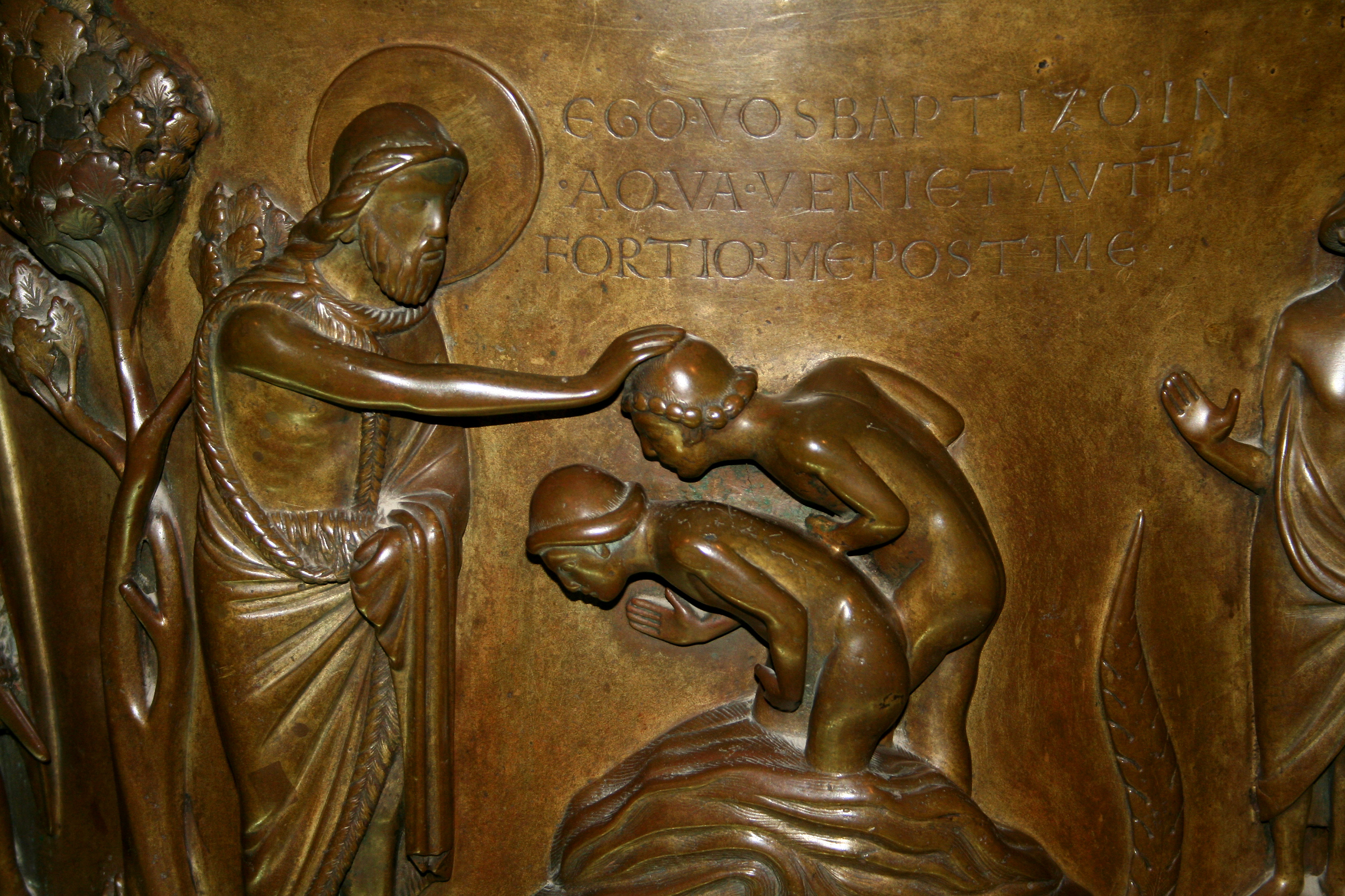 Liège (Belgium), Saint Bartholomew's Church - Baptismal font of Renier de Huy (begin of the XIIth century). - The baptism of the two cathecumenes..